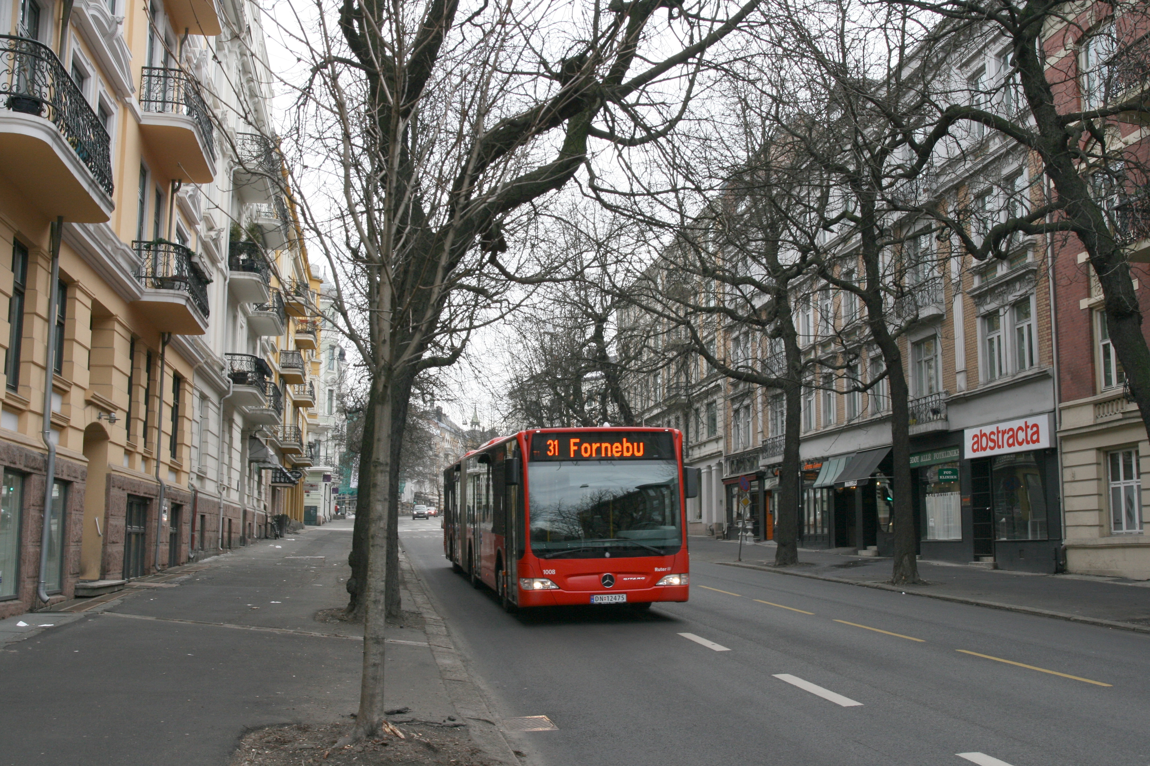 Mercedes-Benz Citaro LE articulated buses in Oslo, Norway.